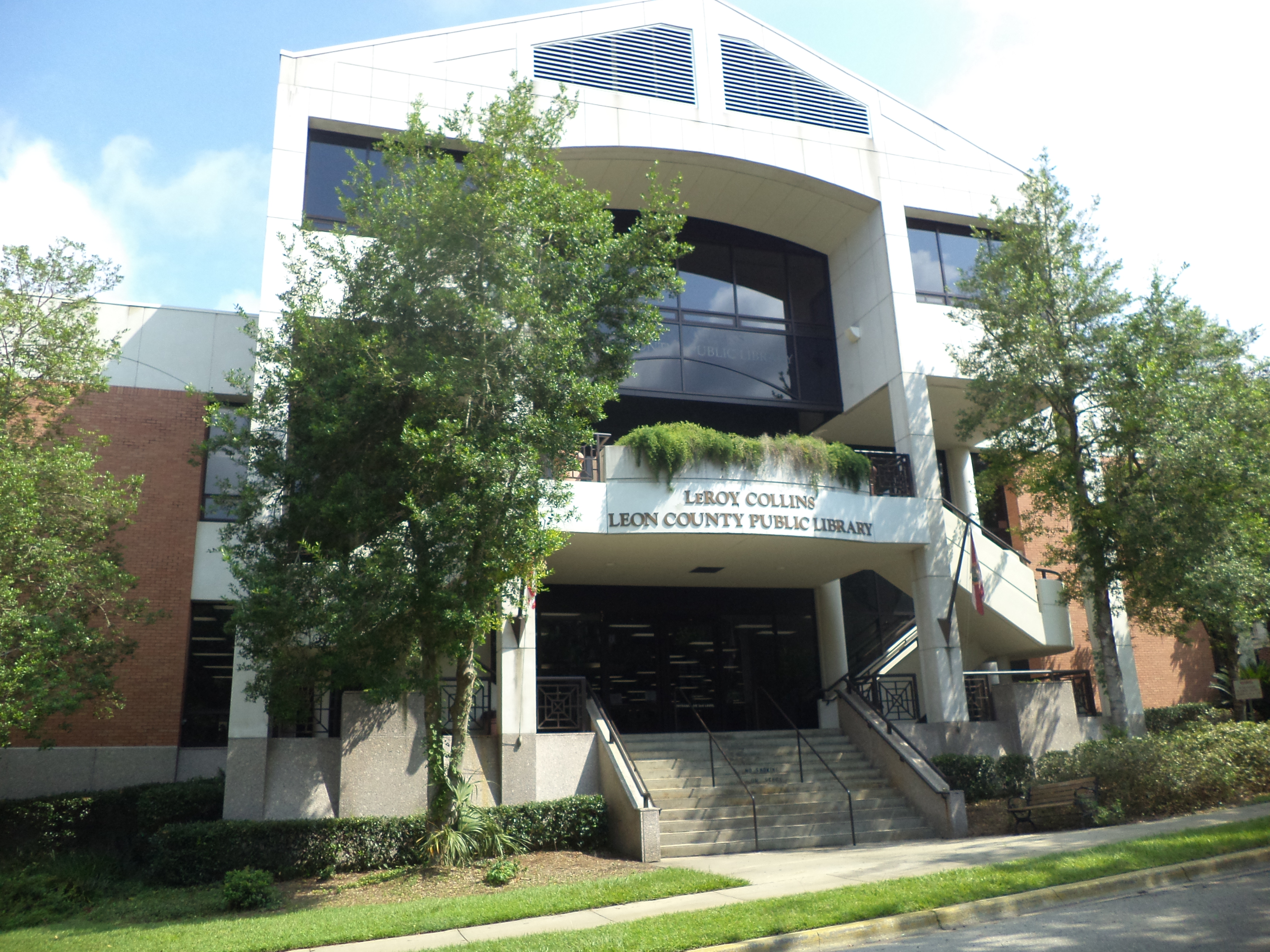 Leroy Collins Leon County Public Library from Park Ave, Tallahassee, Leon County, Florida